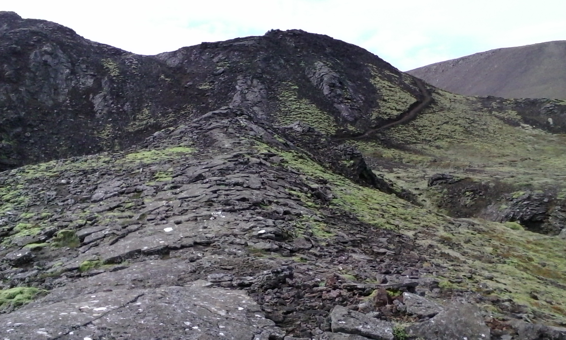 Lava channels around Eldborg, Krýsuvík, Iceland